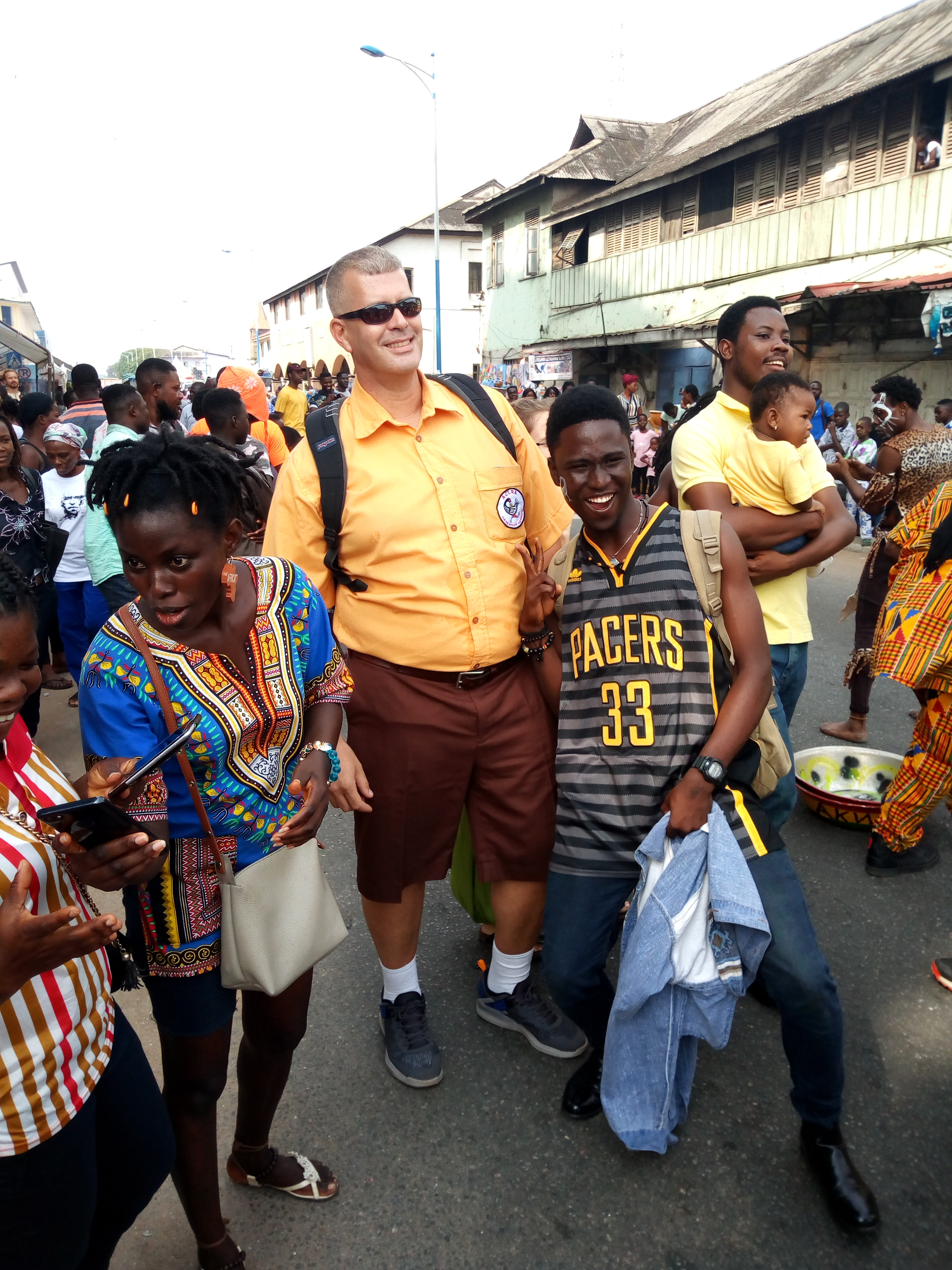 Chale Wote Street Arts